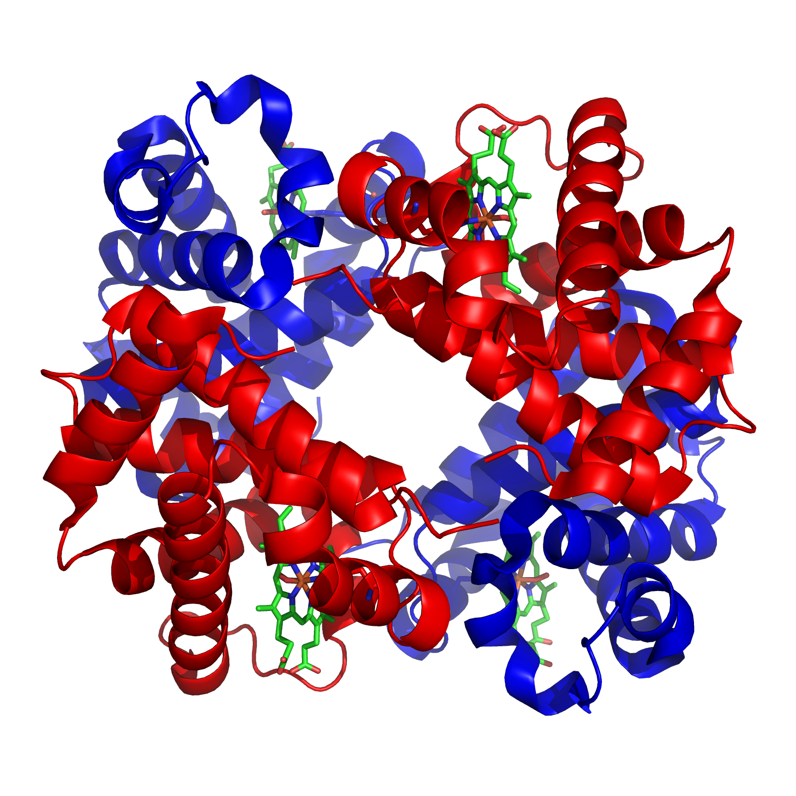 By Richard Wheeler (Zephyris) 2007. Created with pymol from PDB enzyme 1GZX. Category:Protein images